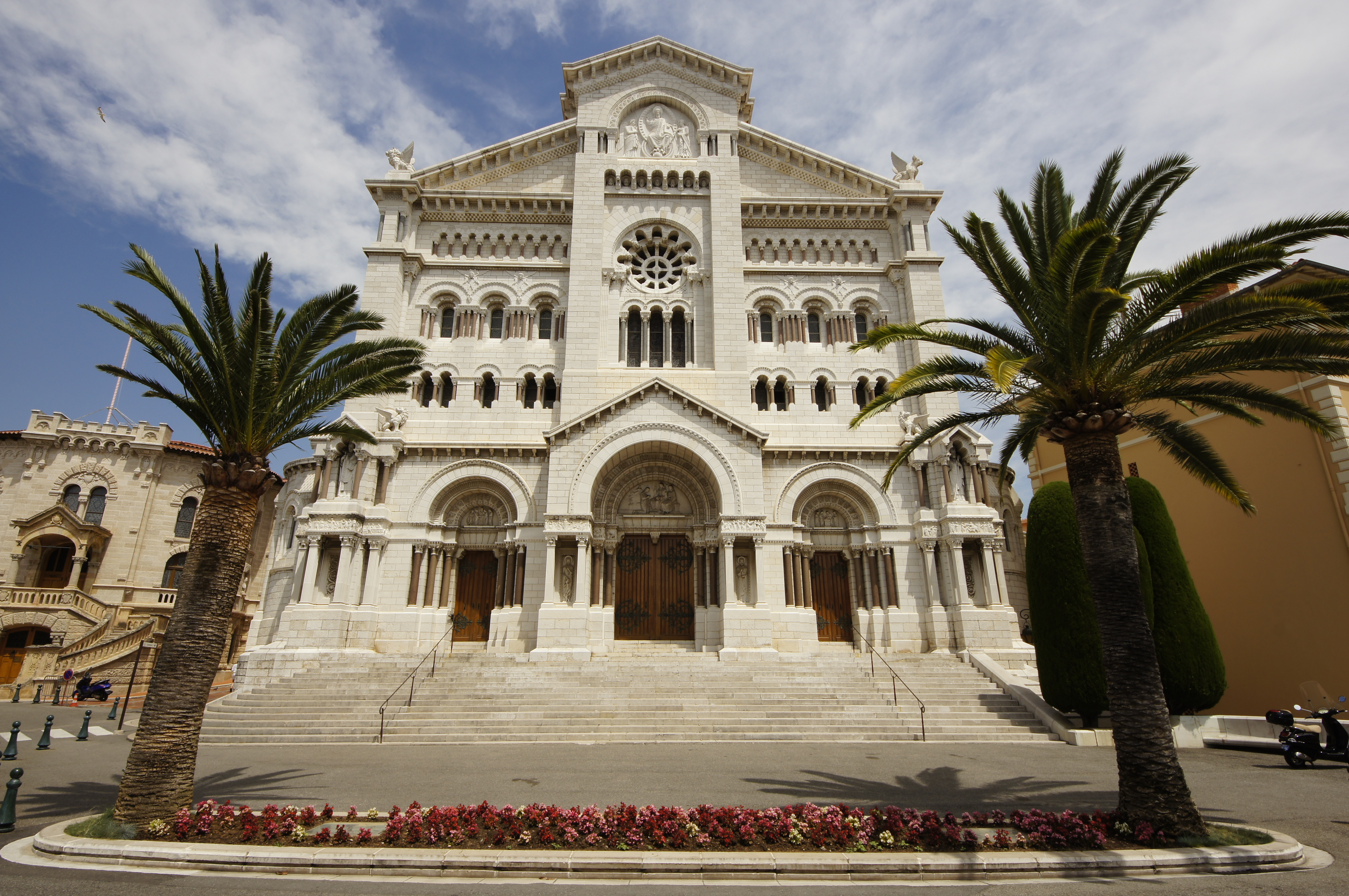 Cathedral of Monaco